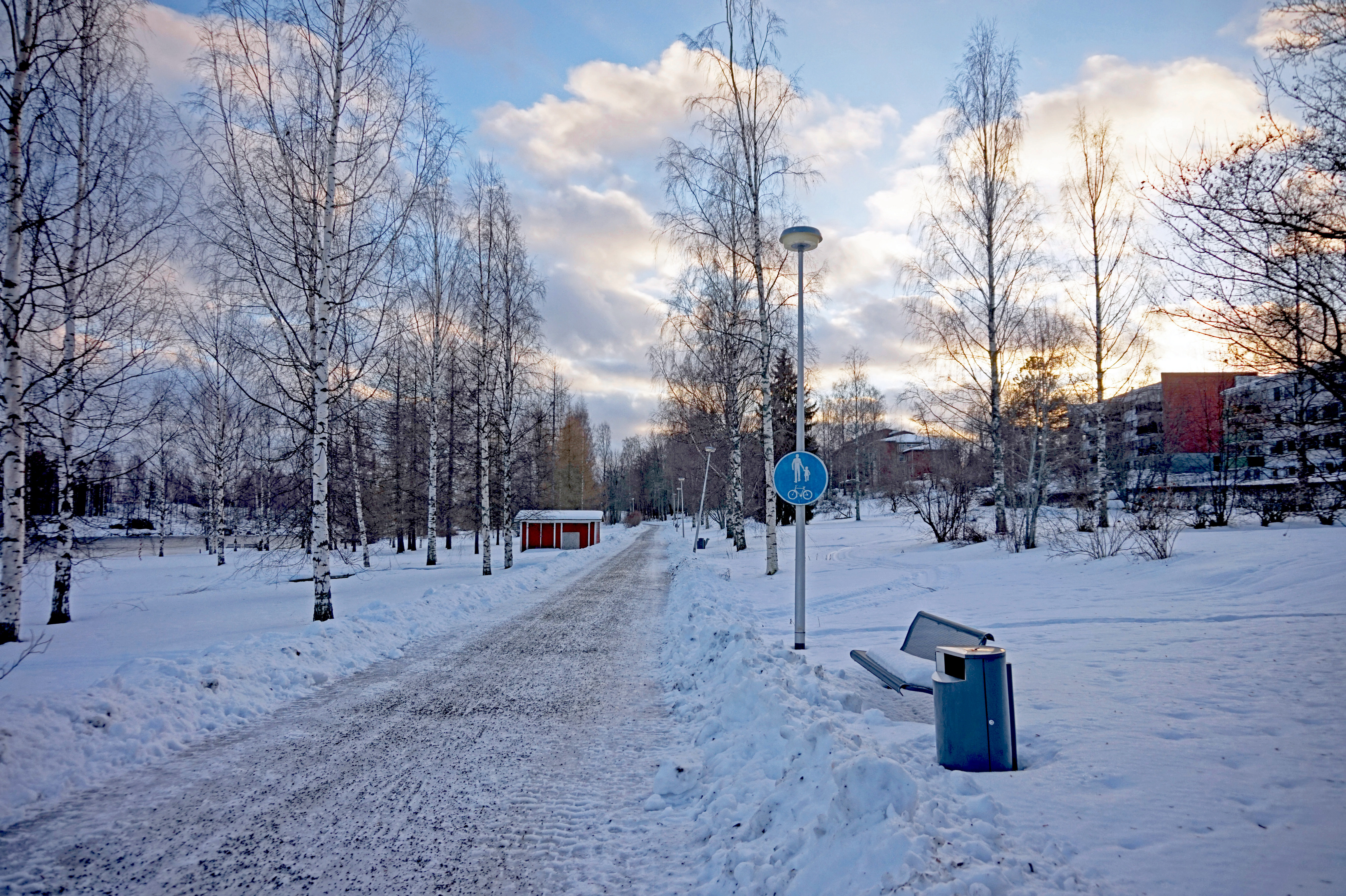 Gritted pedestrian street in Äänekoski.